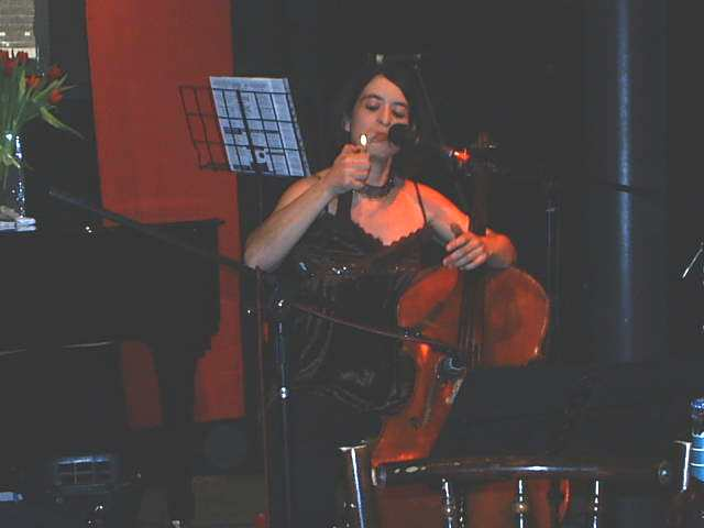 Kate Short performing as part of a Last Amendment event at the Vortex, jan 26 2006.